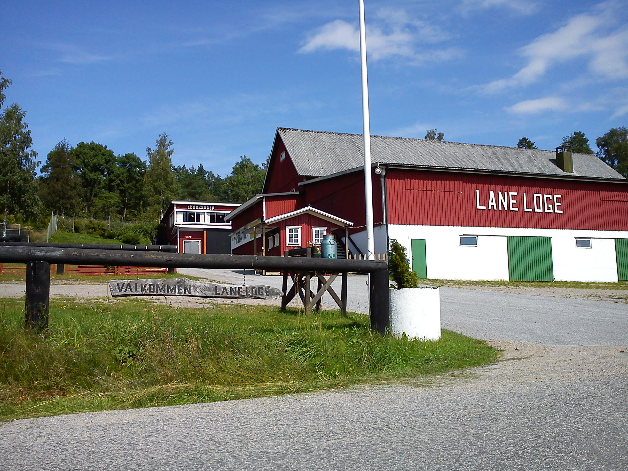 The dancing hall Lane Loge in Lane-Ryr outside Uddevalla (Sweden).